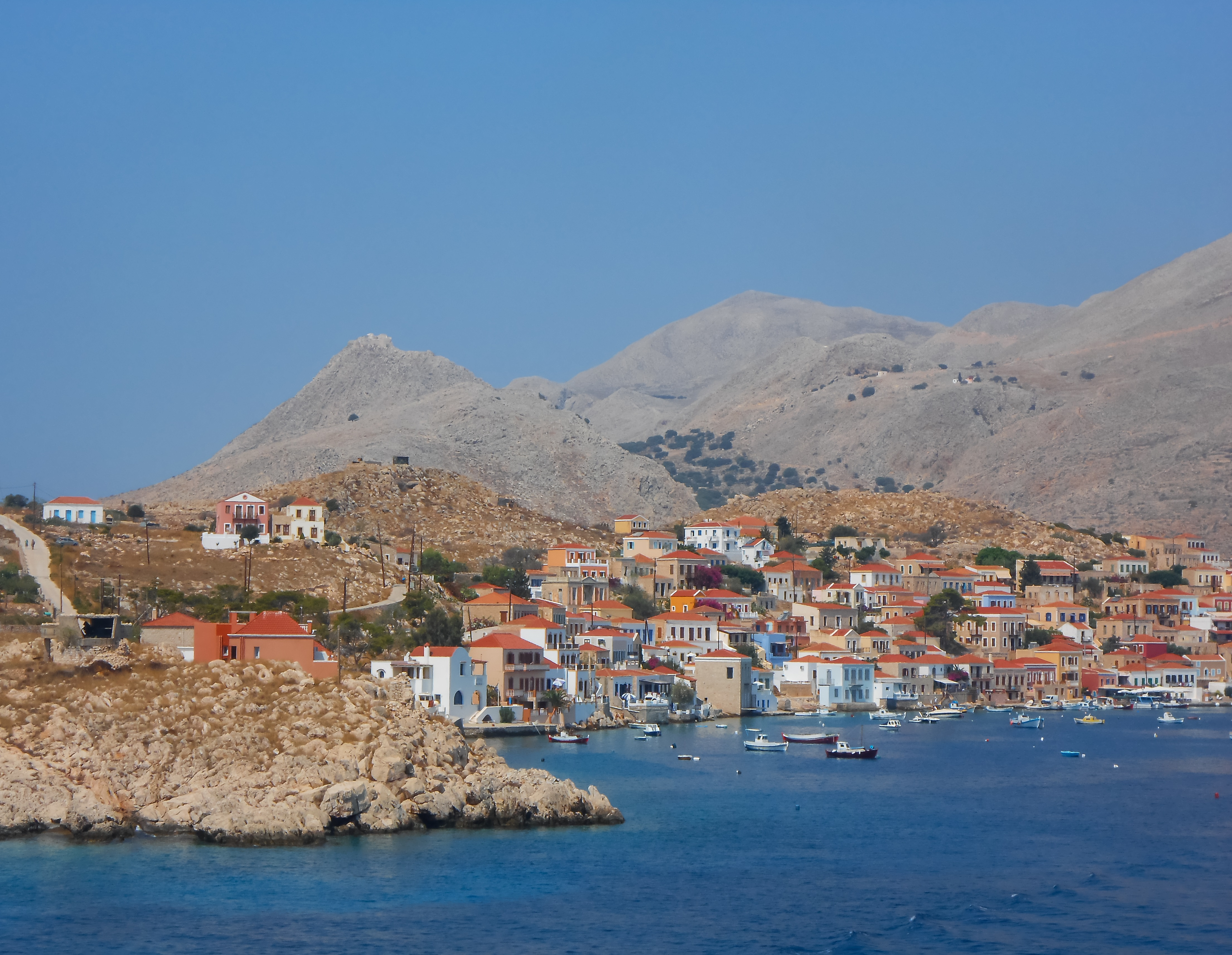 Halki's Island port, Dodecanese, Greece. This is a photography of Natura 2000 protected area with ID GR4210026